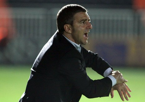 Nikki Papavassiliou